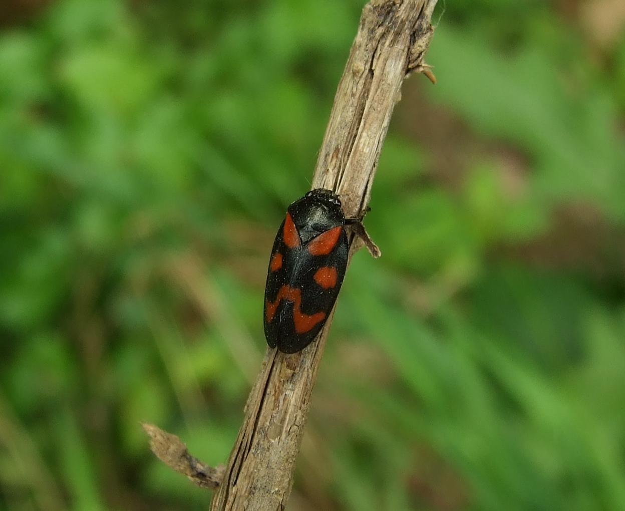 Cercopis vulnerata near city of Beroun in Central Bohemian Region, CZhelp